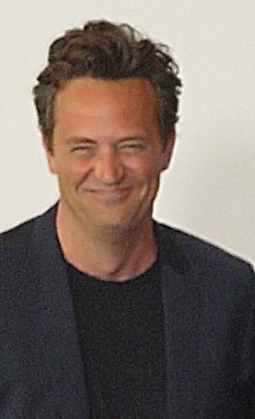 Actor Matthew Perry in August 1, 2010.